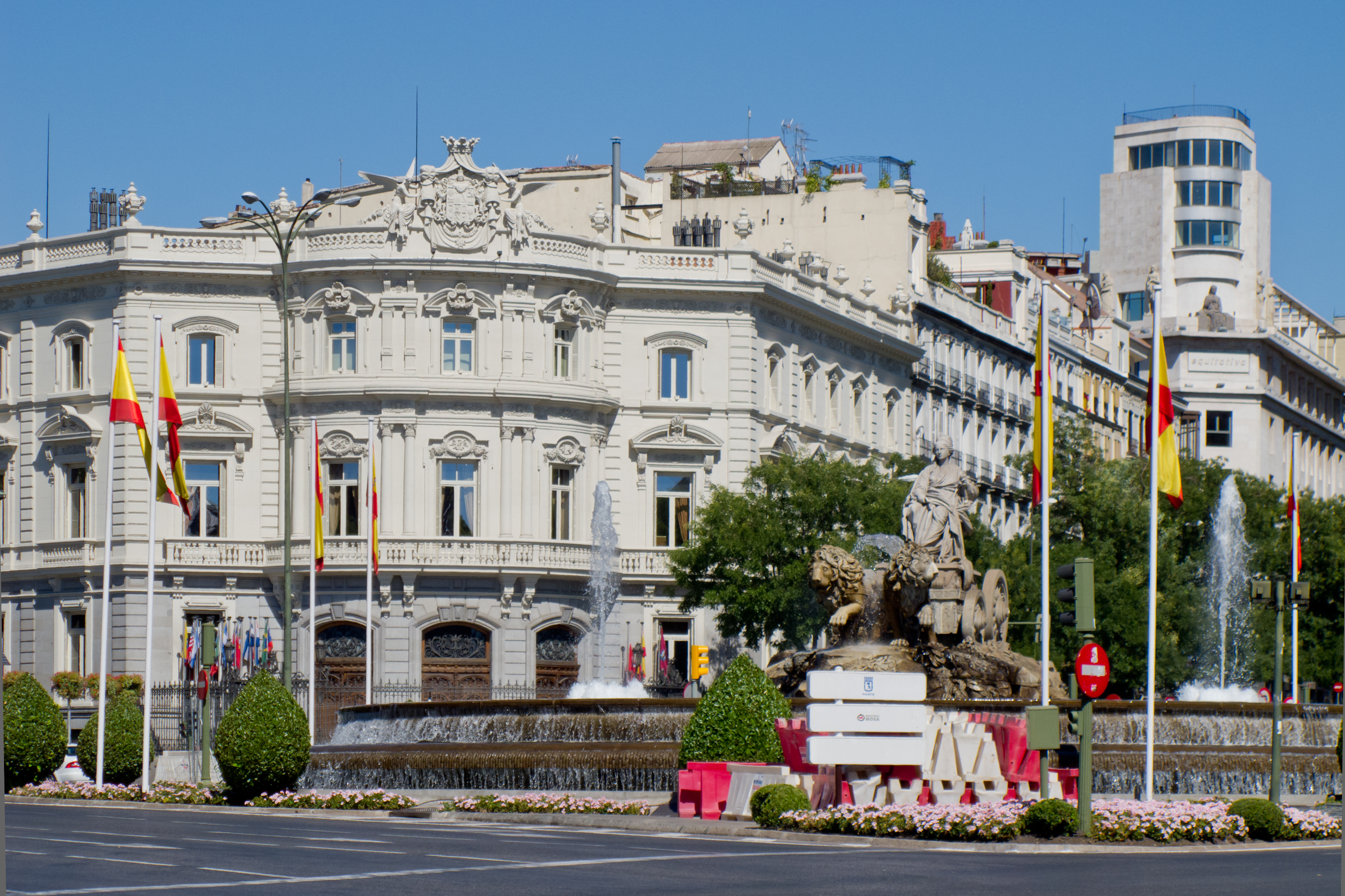 Palace of Linares and Fountain of Cybele, Madrid, Spain.